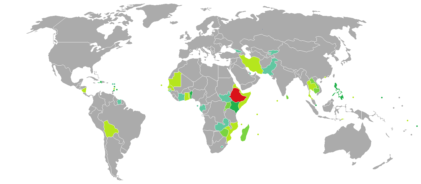 Visa requirements for Ethiopian citizens Ethiopia Visa free access Visa on arrival eVisa Visa available both on arrival or online Visa required